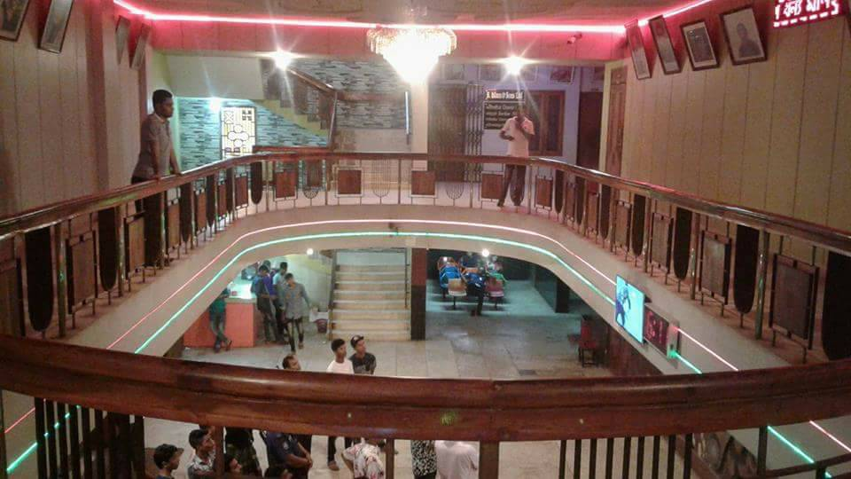 Interior of Monihar